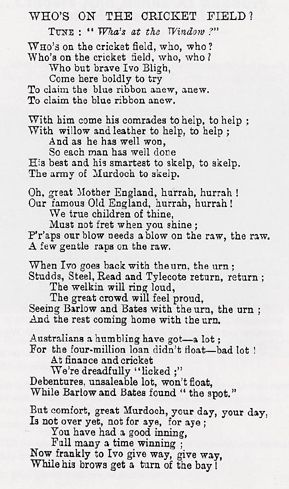 Verse published in Australia in connection with cricket match betwen England and Australia